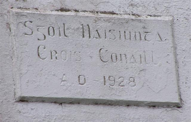 Plaque, Crossconnell old school. It is located here 1390808